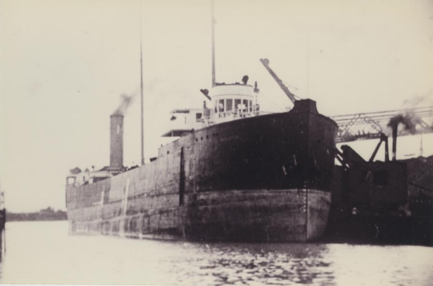 The bulk carrier Senator prior to her 1913 rebuild